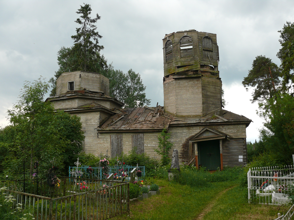 The St. George churche in Ruchi village. Krestetsky district, Novgorod oblast, Russia